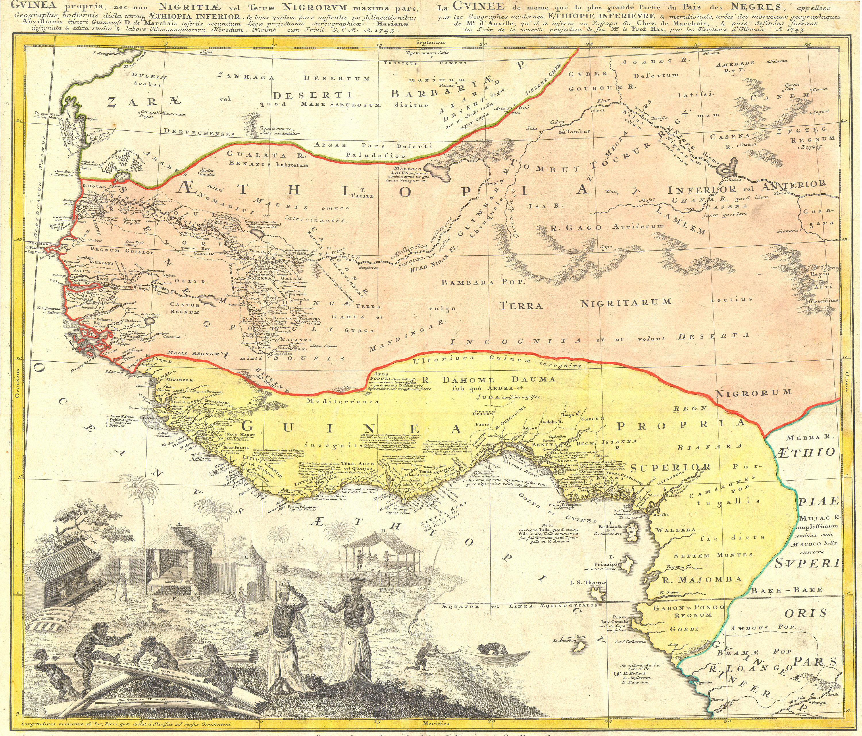 One of the finest maps of west Africa to appear in the mid 17th century. Details West Africa from Cape Blanc and Senegal to Guinea Inferior and the Cacongo and Barbela Rivers. Extends inland to including Ghana Lake on the Niger River as far as Regio Auri. The coast is highly detailed with numerous notations in Latin regarding the peoples and tribes of the region. The detail extends inland along some river valleys, most specifically the Niger, however, the map becomes quite vague the farther the river flows inland. Features an elaborate engraving in the lower left depicting ivory, Africa tribespeople and a small village.